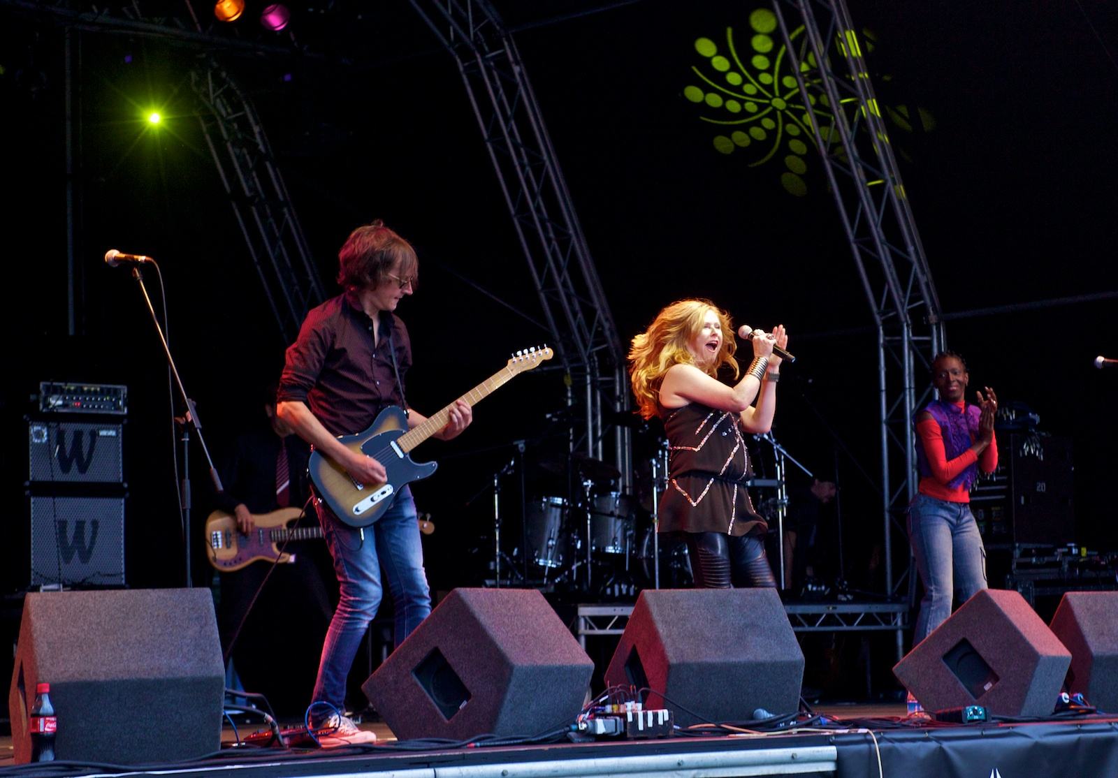 T'Pau, "Flashback to the 80's" festival in Clumber Park, Nottingham, England, 20th August 2010.